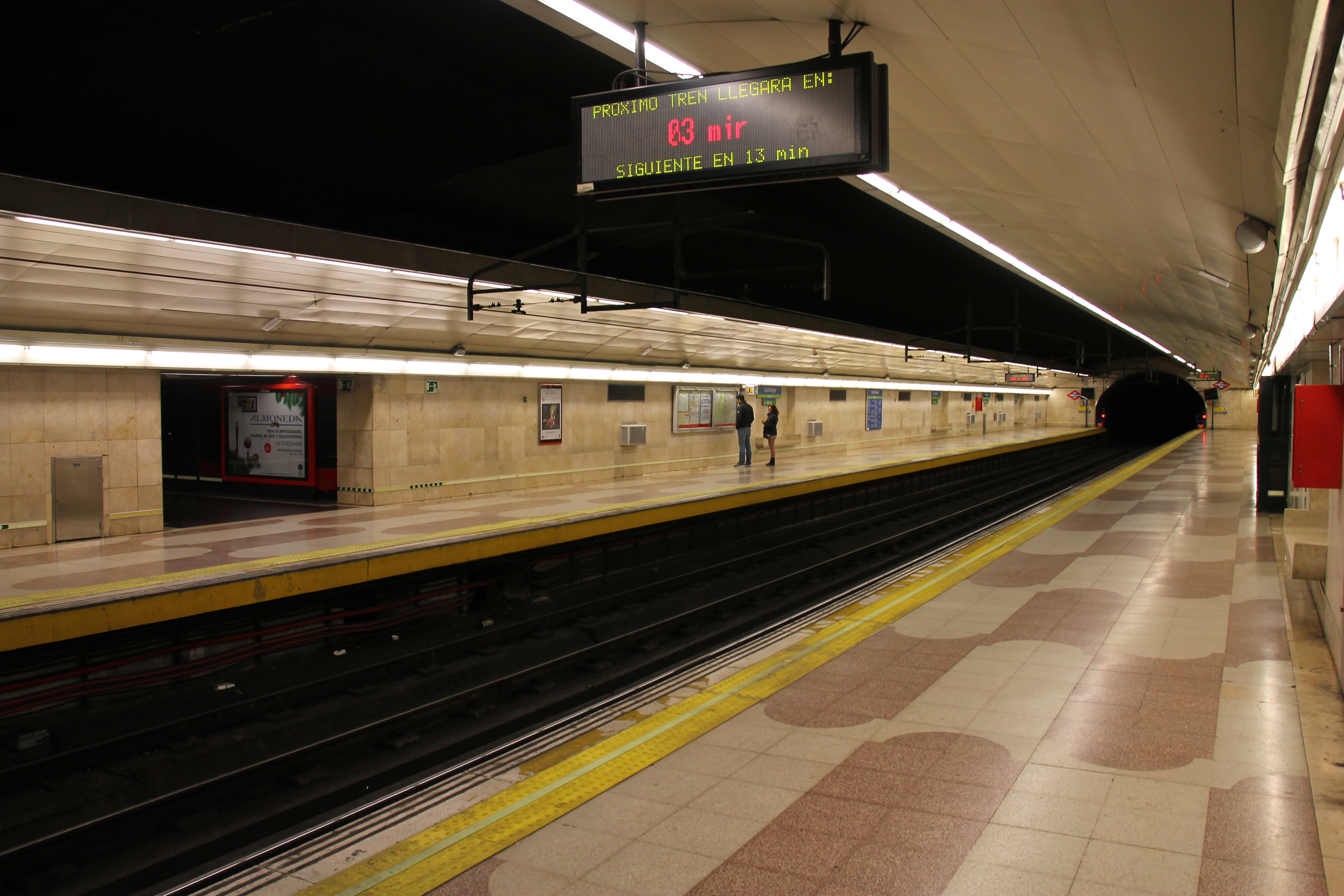 Estación de Canillejas